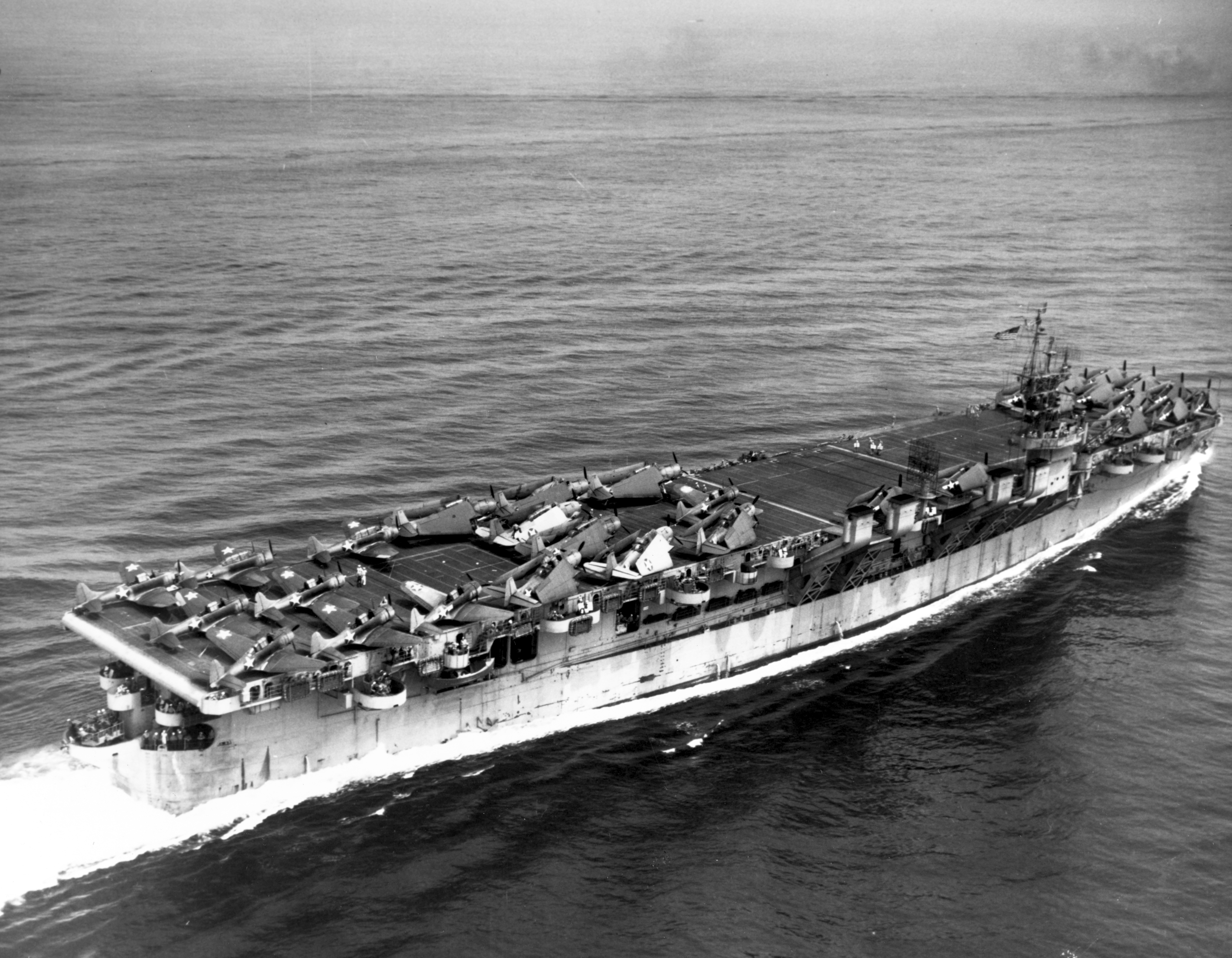 The U.S. Navy light aircraft carrier USS Cowpens (CVL-25) underway at sea on 17 July 1943. Note that she still carries Douglas SBD-5 Dauntless dive bombers as part of her air group. Before entering combat, only Grumman F6F-3 Hellcat fighters and Grumman TBF-1 Avenger torpedo bombers, both with folding wings, equipped the air groups of the light carriers.